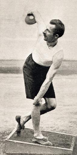 Panagiotis Paraskevopoulos Taken from by age